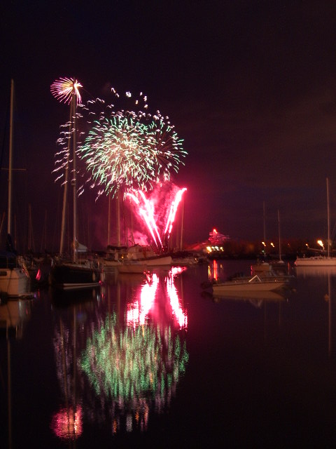 Victoria Day 2005 firework display from Ontario Place, Toronto